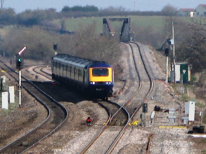 A First Great Western train runs through Cogload Junction, Somerset, England, with a train from London. The green signal with its "feathers" lit is for a train approaching to go towards London. This line passes under the bridge on the right which carries to Bristol to taunton track, while trains from Taunton to Bristol travel on the flat to the left of the picture.